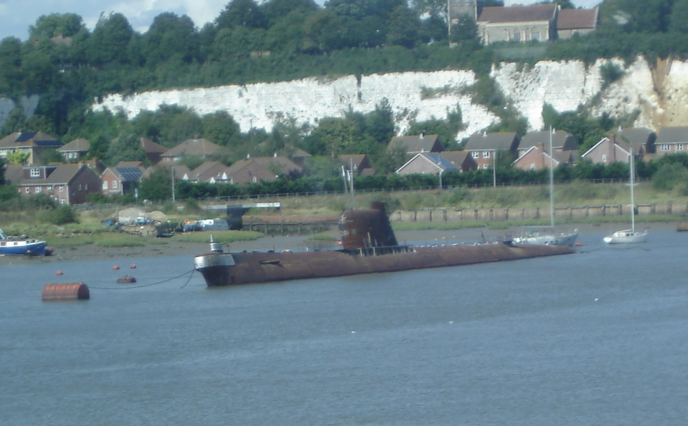 Soviet Foxtrot class submarine at Strood in Kent